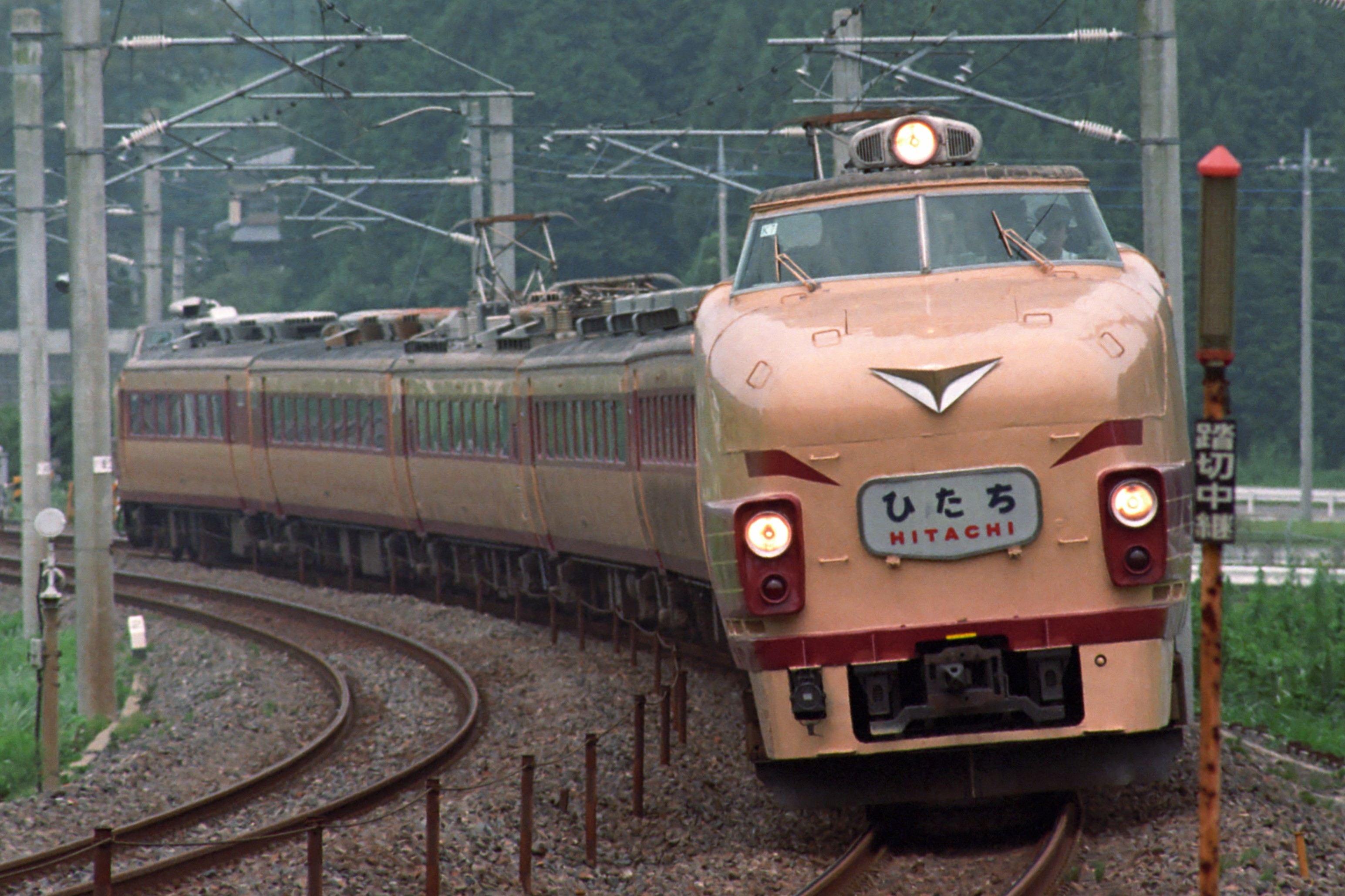 A JR East 485 series EMU on a Hitachi service